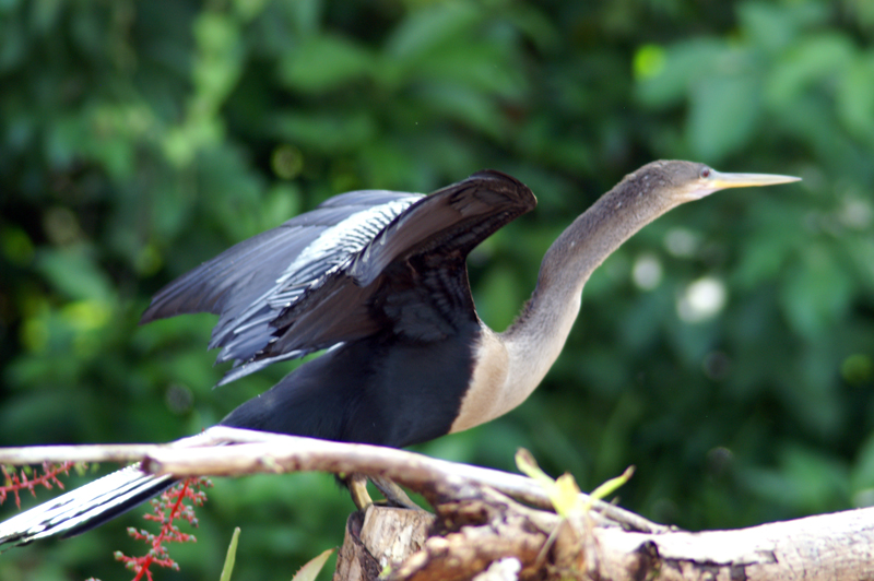 American darter, Anhinga